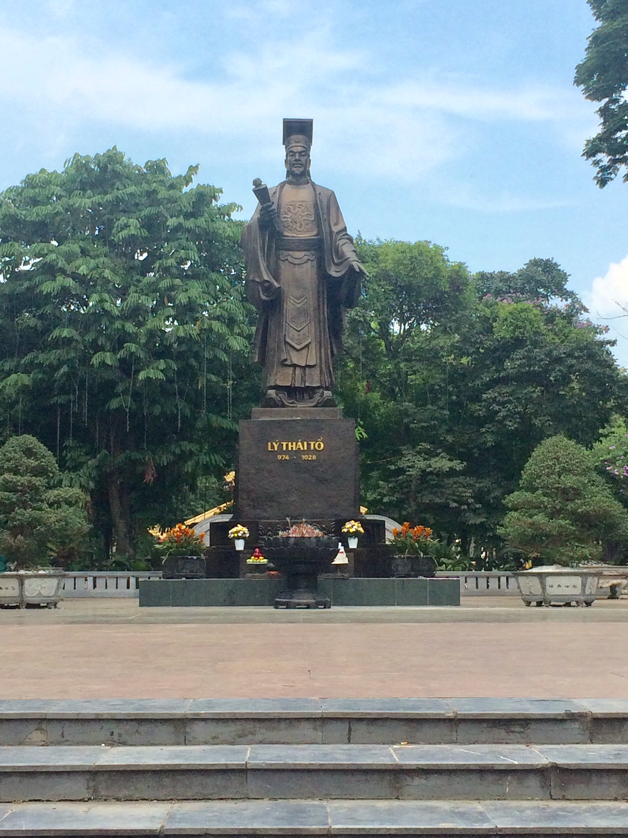 Ly Thai To's statue, founder of the Ly dynasty, Hanoi, Vietnam.